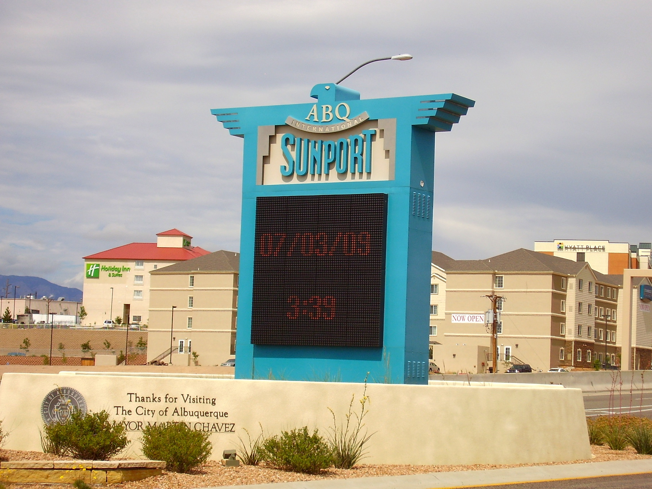 Entrance to Albuquerque International Sunport.